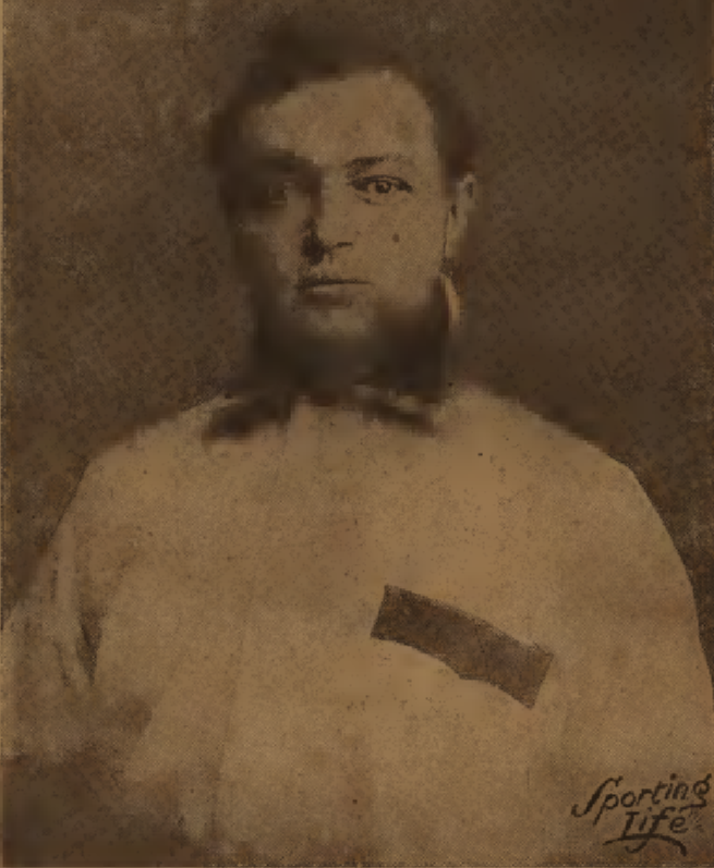 Photograph of Tex Erwin